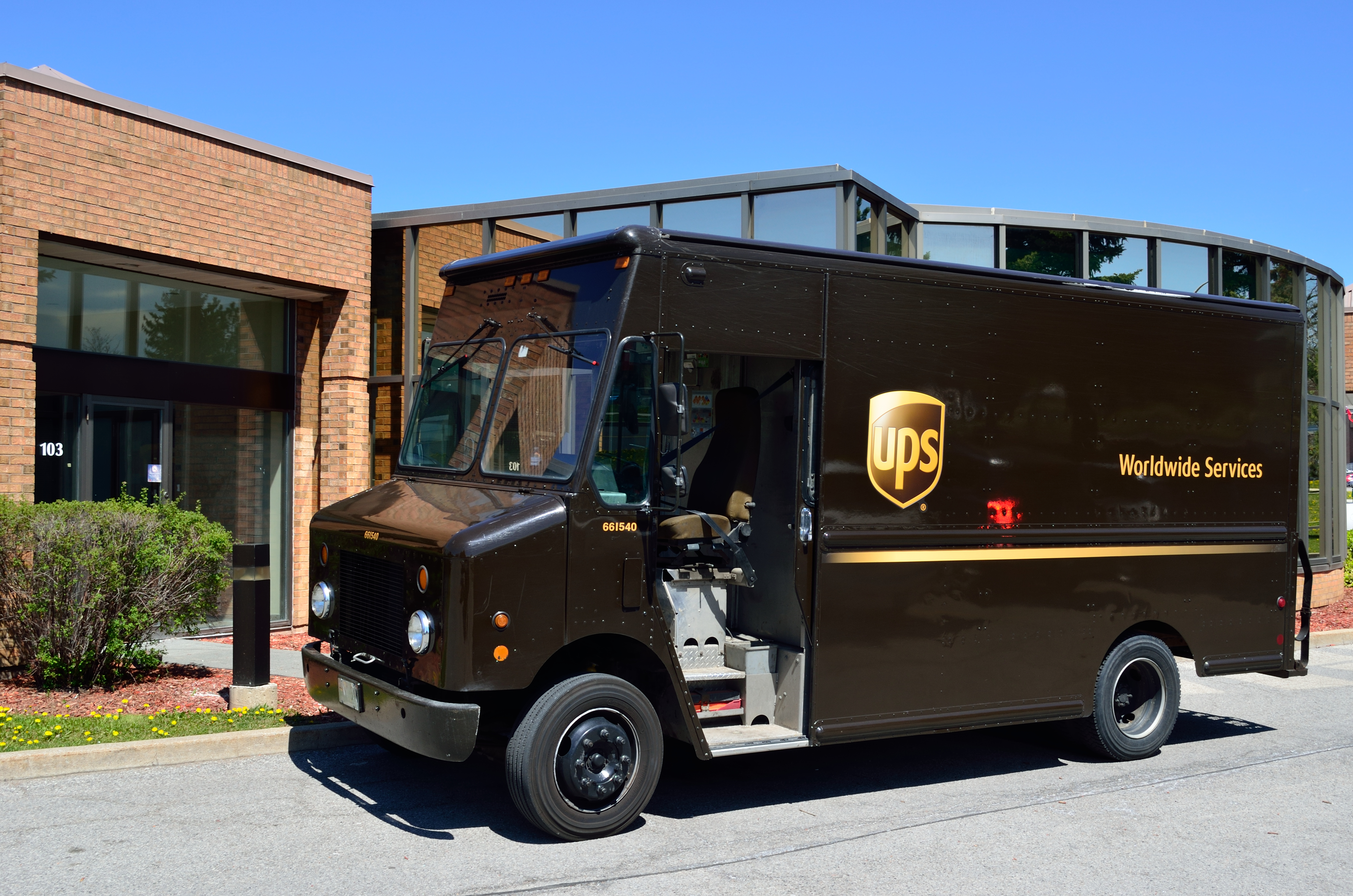 A UPS van in Ontario.